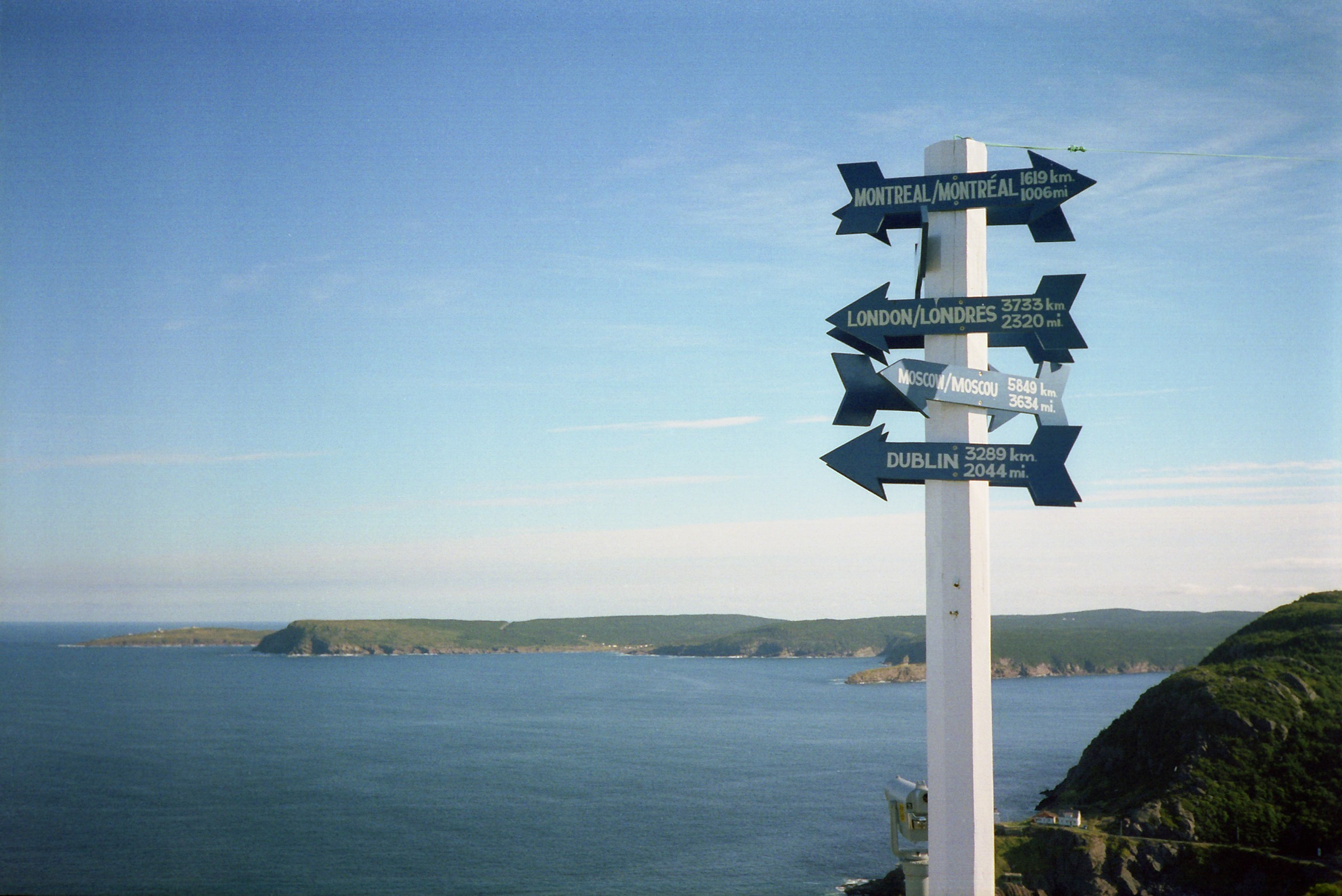 Directional signs on Signal Hill, St. John's, Newfoundland, Canada